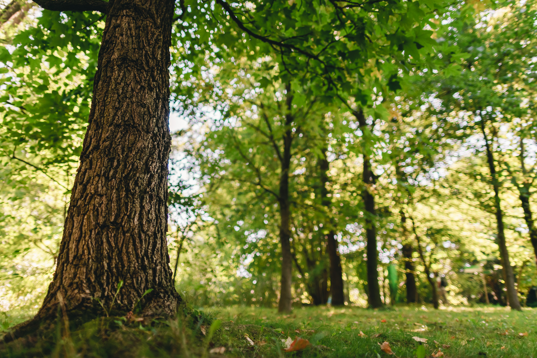 The Forest of the World at the Gardens of Trauttmansdorff Castle